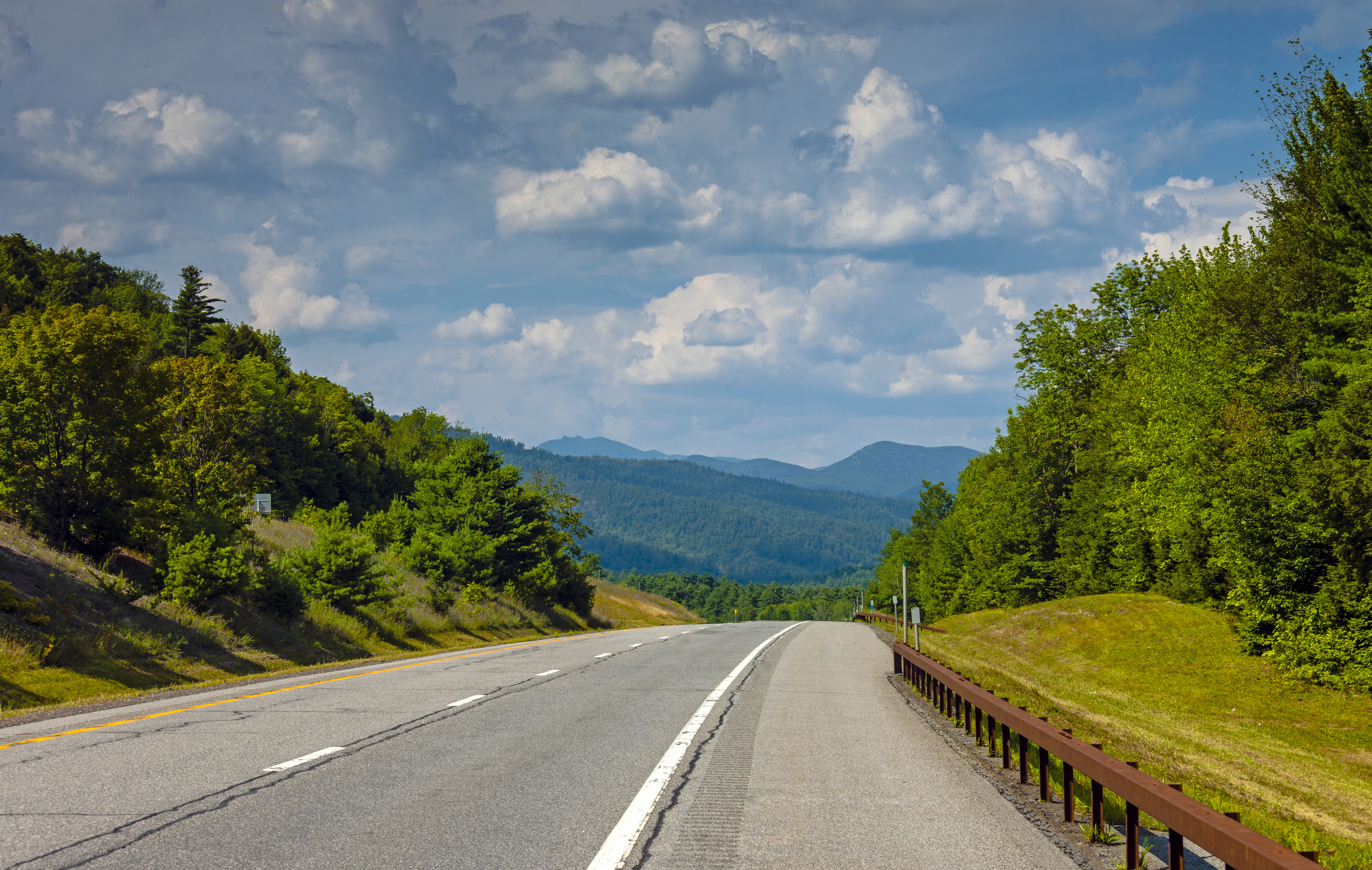 Looking north along the I-87 Adirondack Northway as it approaches the High Peaks region (Nippletop Mountain at left) in Essex County, NY USA.